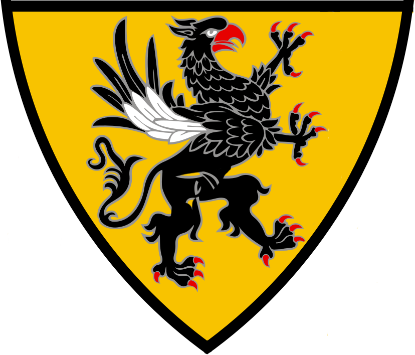 Coat of arms of the duchy of Pomerania-Barth